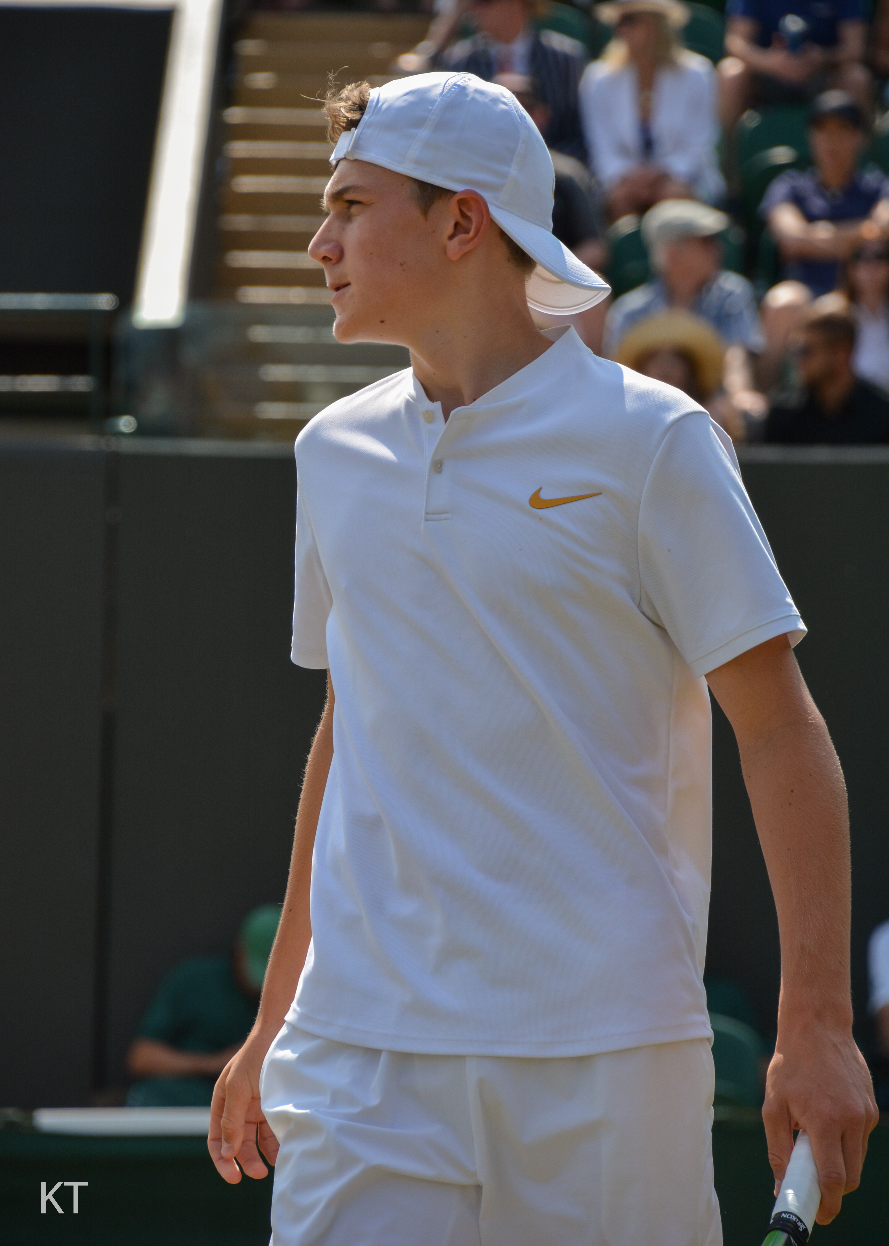 Boys' singles semi-final. Day 11 of Wimbledon 2018.